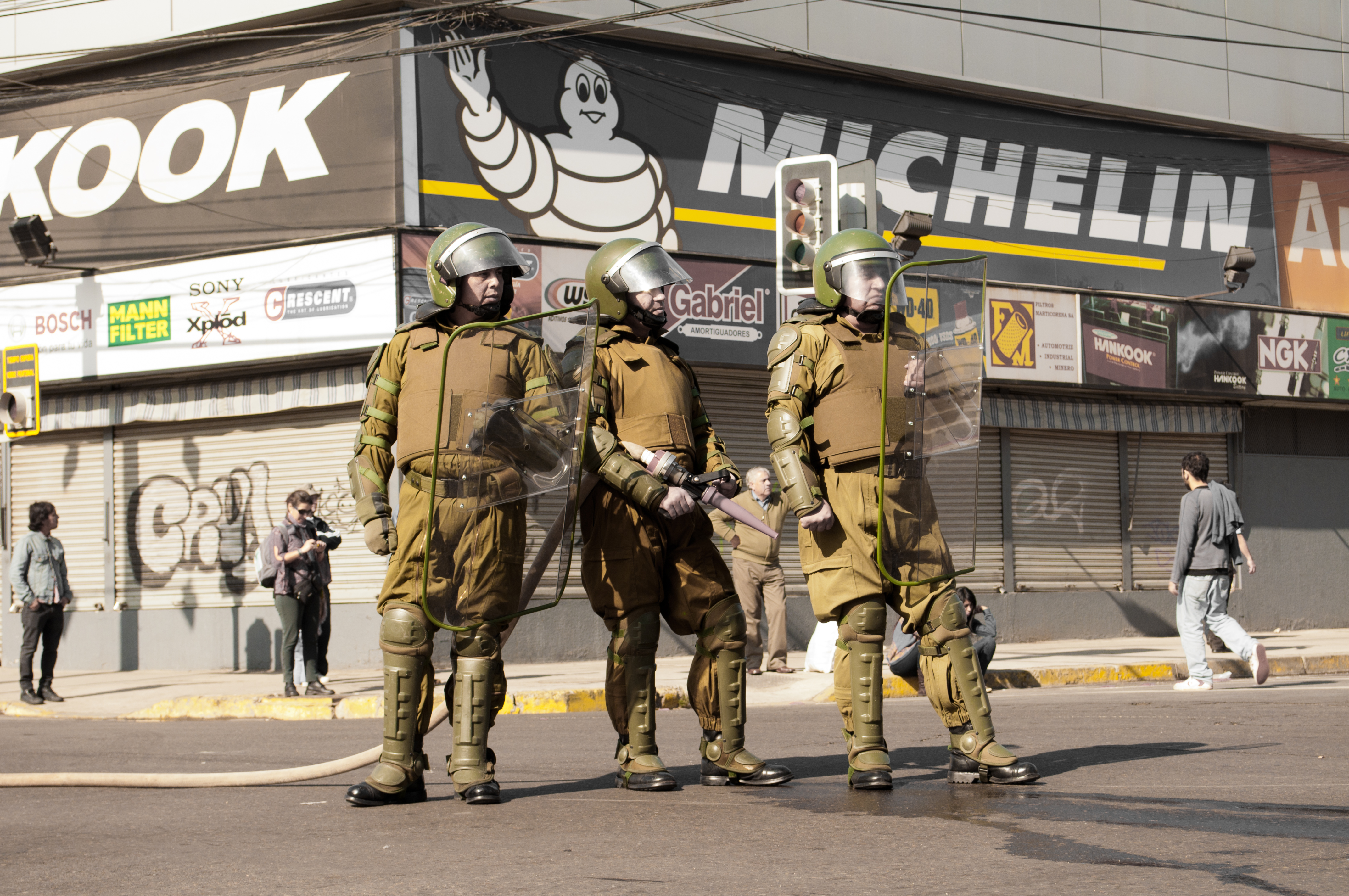 Even early before the riots start, the police is present in every corner, ready to act. Protestas 21 Mayo, 2011. Valparaiso, Chile.